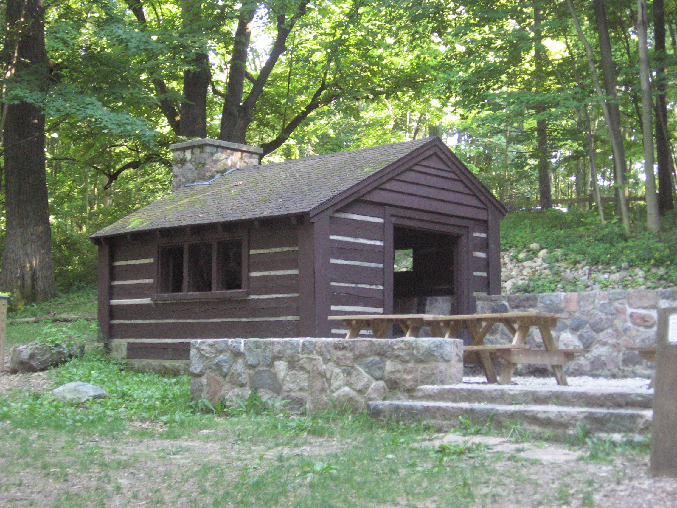 Photo of the Spring Shelter at Pokagon State Park, in Angola. Built by the Civilian Conservation Corps in 1937.